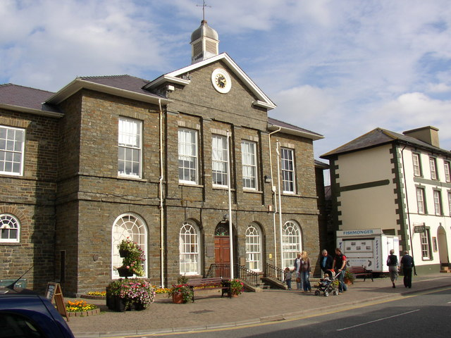 County Hall, Market Street (Heol y Farchnad), Aberaeron However I have found no evidence that Aberaeron has been the county town of Cardiganshire in the past. It was nominally Cardigan, but the offices were in Aberystwyth. The little shield-shaped plaque on the left reads: neuadd y dref / town hall / 1833-45.